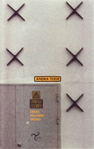 Luulekogu "Takso Tallinna taevas"